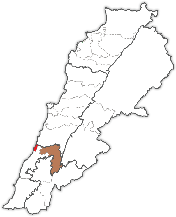 electoral district (2017 Election Law)